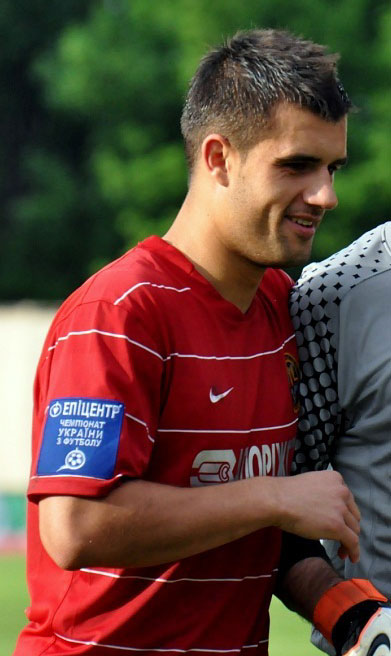 Denys Skepskyi Ukrainian footballer, after the game for FC Metalurh Zaporizhya